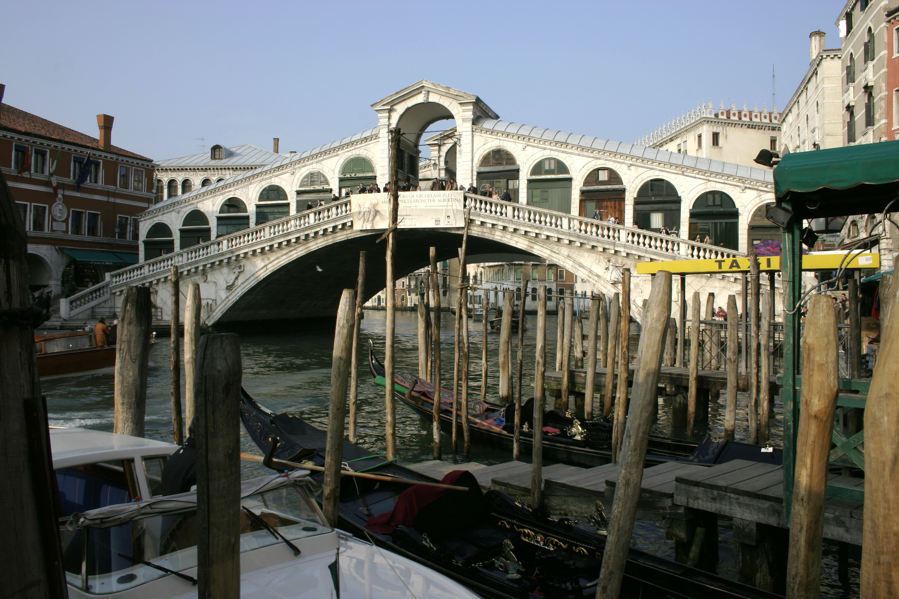 Venice - Rialto Bridge